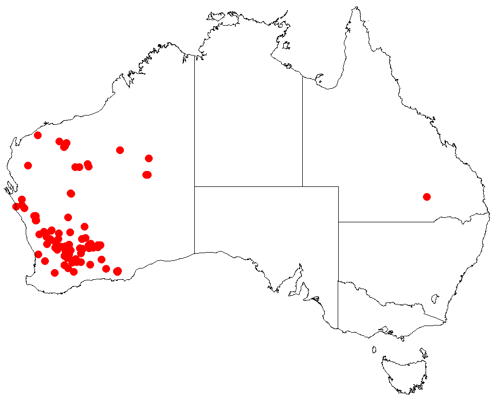 Velleia discophora Occurrence data downloaded from Australasian Virtual Herbarium}AVH on 10 September 2018